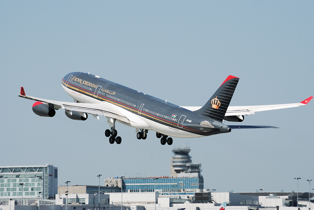 Royal Jordanian Airbus A340-200 taking off from Montréal-Pierre Elliott Trudeau International Airport in August 2009.